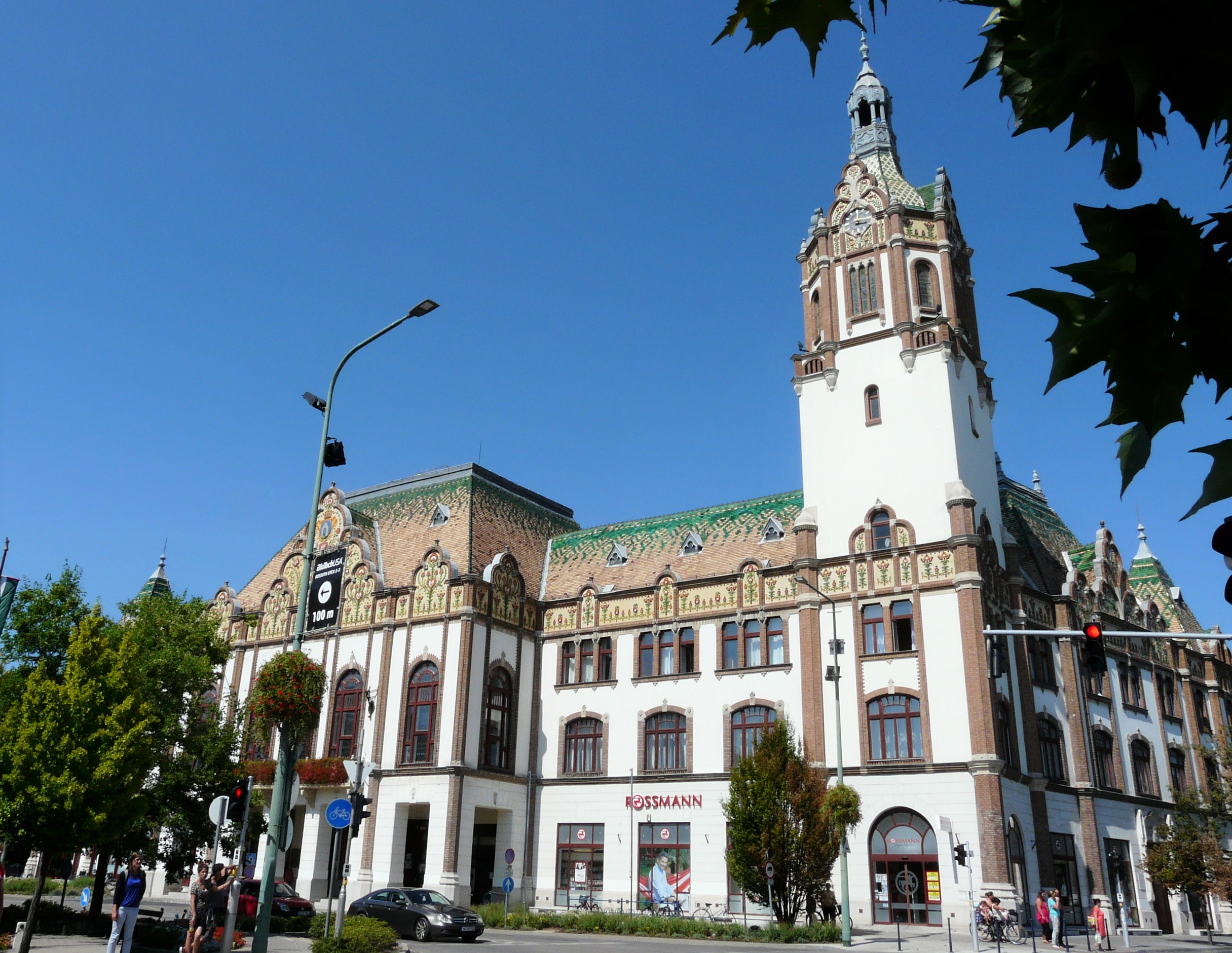 Town Hall, Kiskunfélegyháza, by József Vas and Nándor Morbitzer (1911).